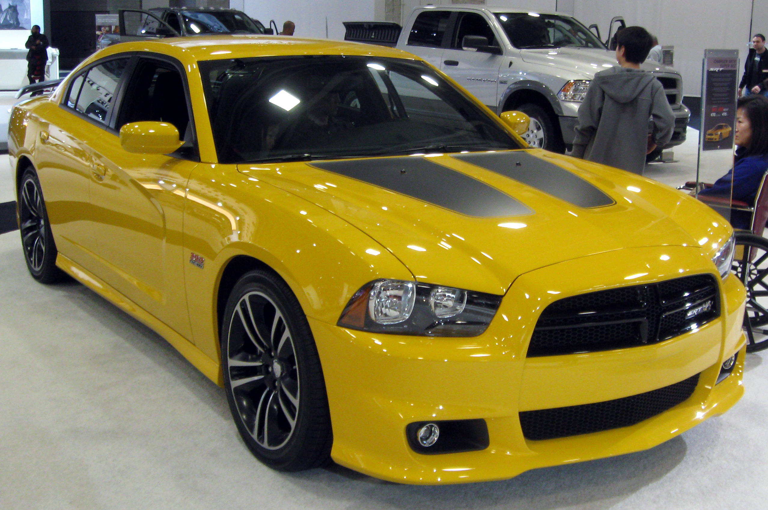 2012 Dodge Charger photographed in Washington, D.C., USA.